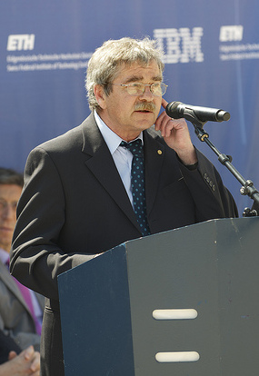 Nobel laureate J. Georg Bednorz speaking at the groundbreaking of the new IBM and ETH Zurich Nanotech Exploratory Technology Lab on June 2, 2009